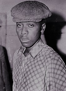 Image depicts 'Brick Moron' Robert Nixon. 1938 press photograph.